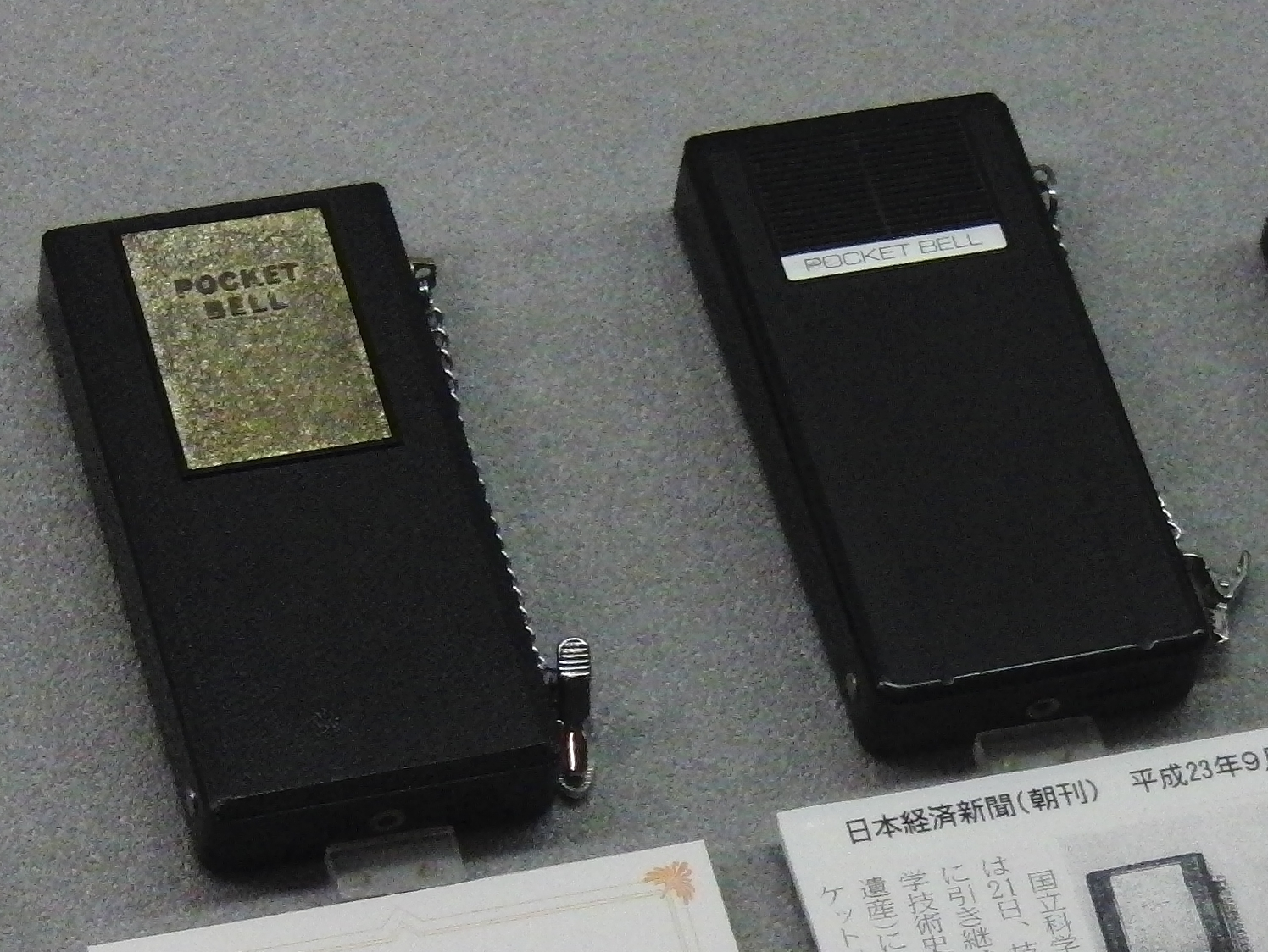 Pocket Bell B Type RC11. The first pocket bell in Japan. Year Manufactured is 1968. Essential Historical Materials for Science and Technology Registration Number 00087. Collection of Communications Museum, Tokyo.